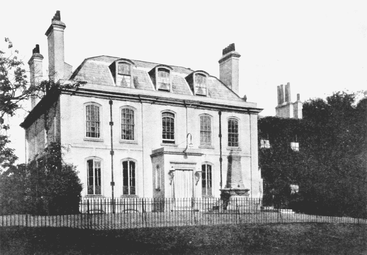 Ravenscourt Park House, photographed in 1915. First published in the Survey of London. Plate 93: Ravenscourt Park. p93. Survey of London: Volume 6, Hammersmith. Originally published by London County Council, London, 1915.